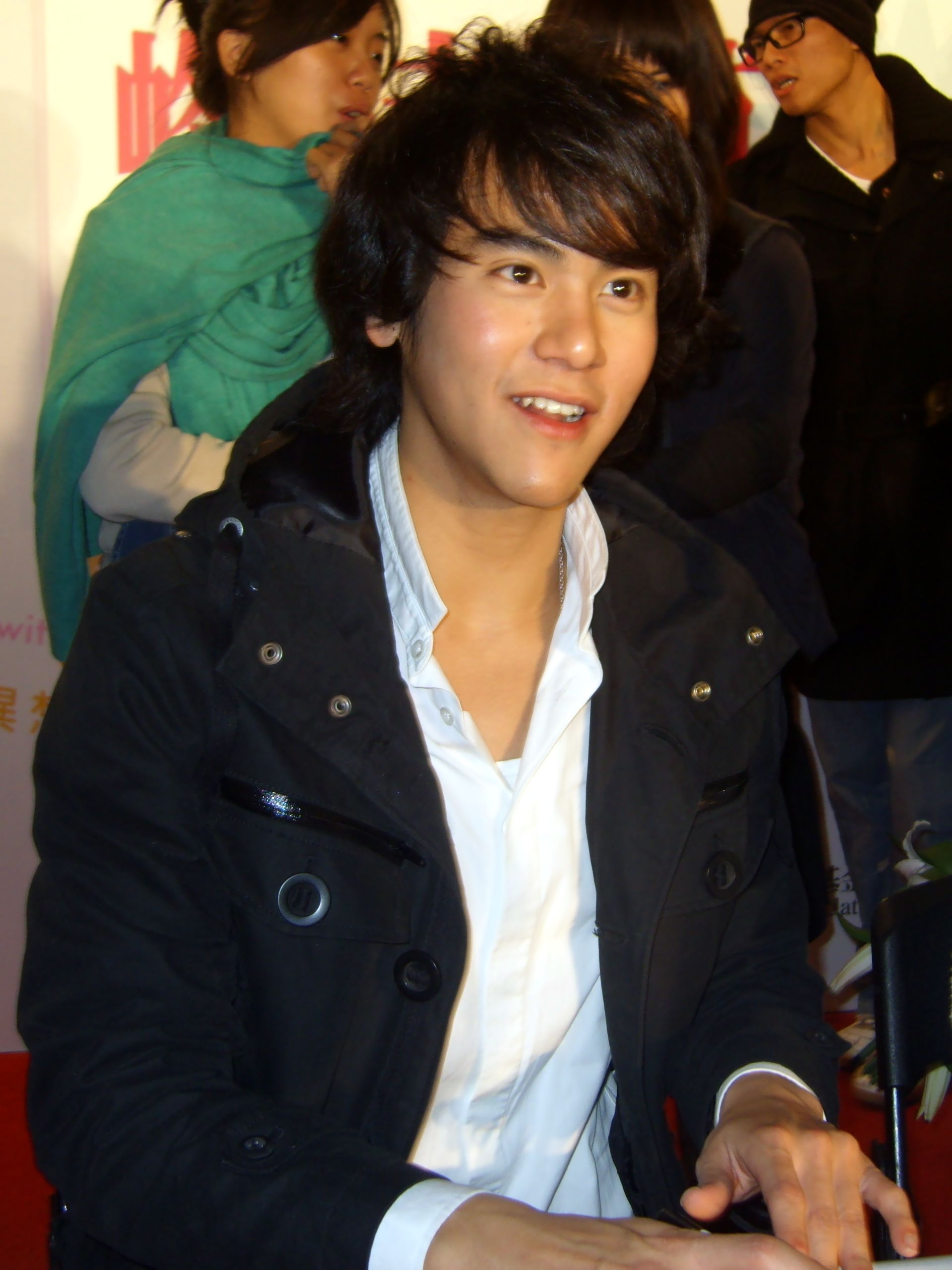 2008 Taipei International Book Exhibition - Signing Event of Japanese Drama "Honey and Clover" in Taiwan: Eddie Peng, spokesman of Comic Hall at TIBE 2008.